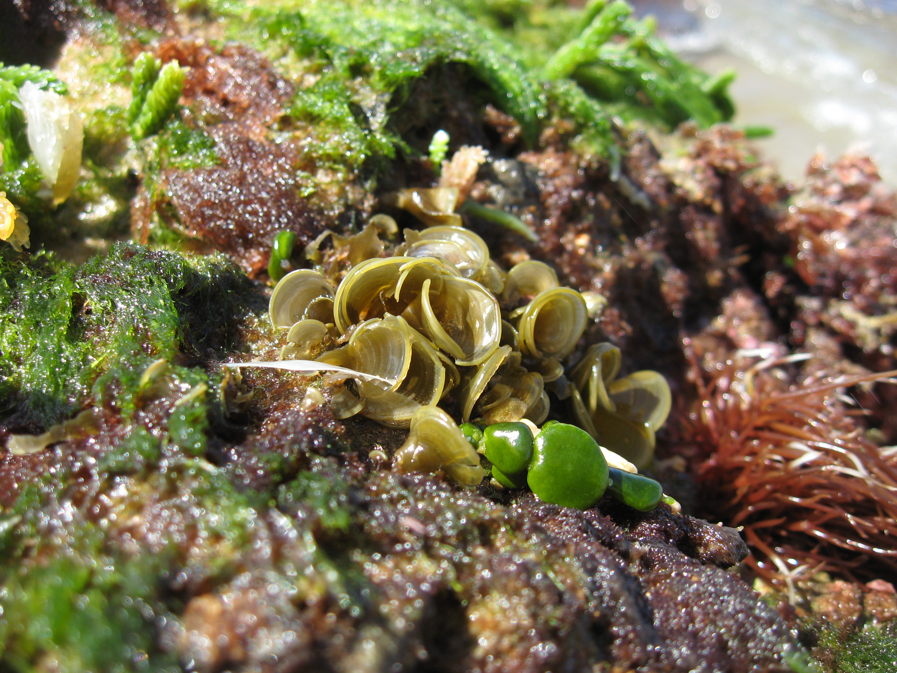 Padina an other Algae in the lower intertidal zone in rocks at Imabassaí beach, Mata de São João, Bahia, Brazil